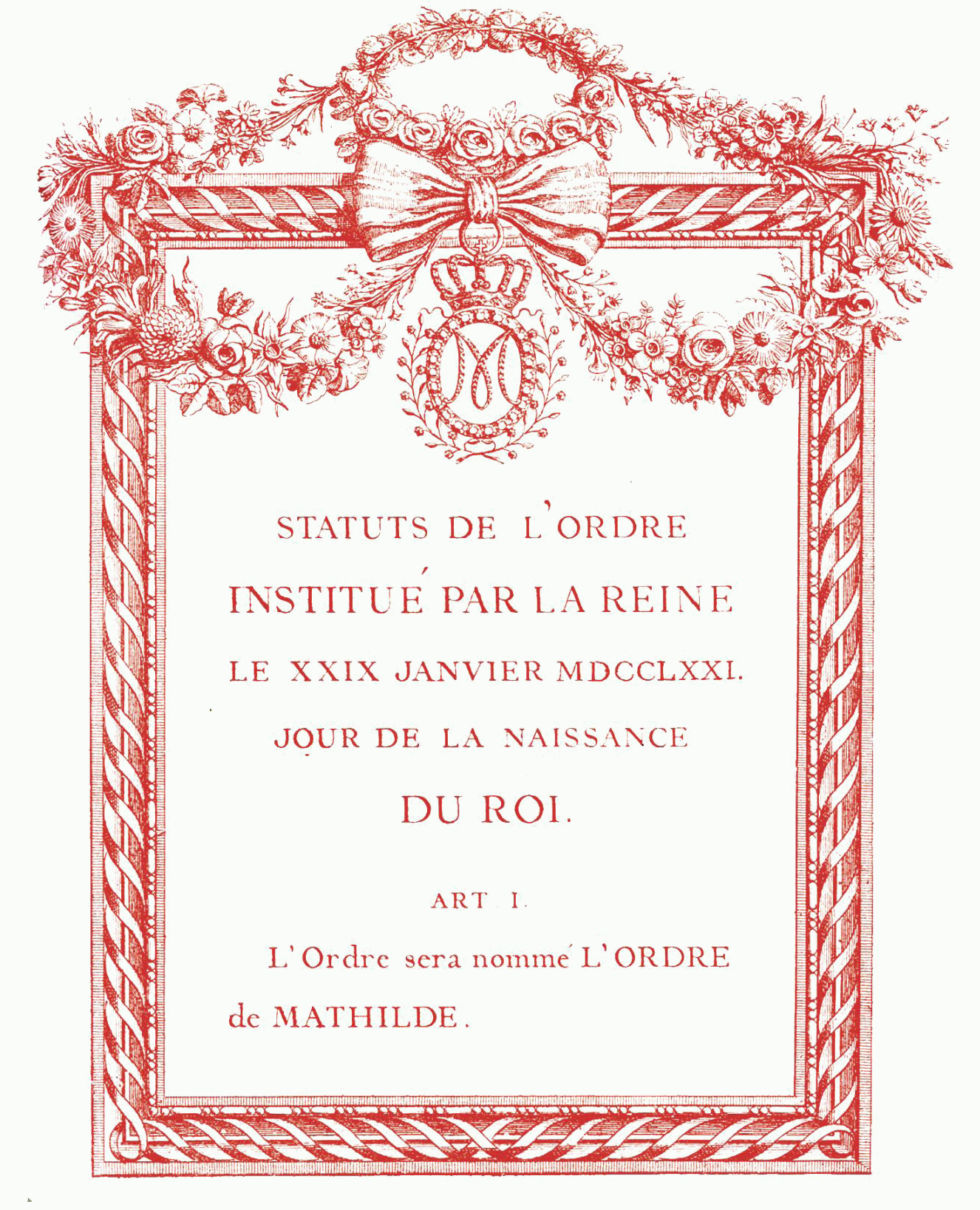 Mathilde ordenens Statutter